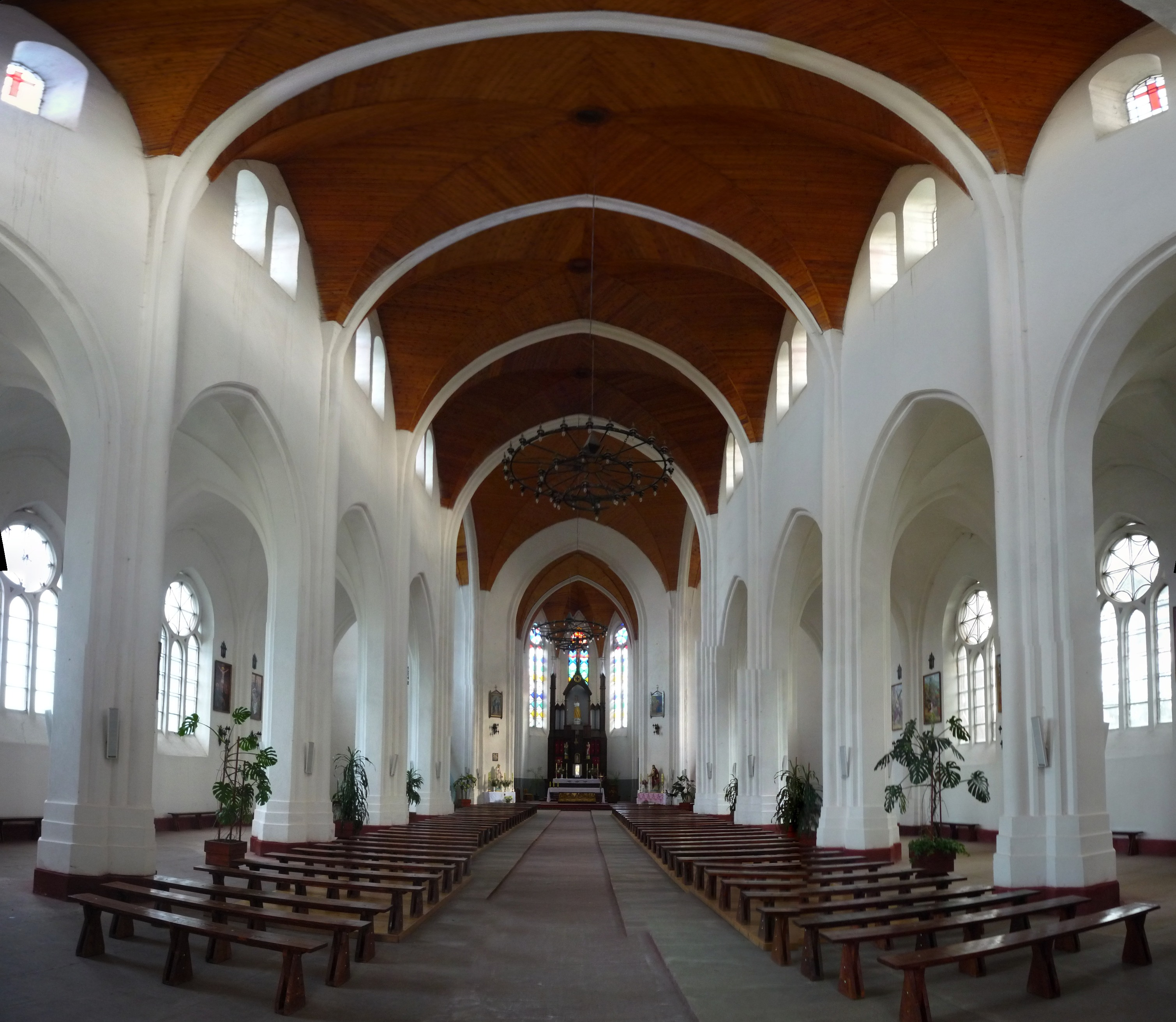 Беларуская (тарашкевіца): Троіцкі касцёл. г. п. Відзы This is a photo of Belarusian heritage monument. Reference number: 213Г000180 ( WLM)